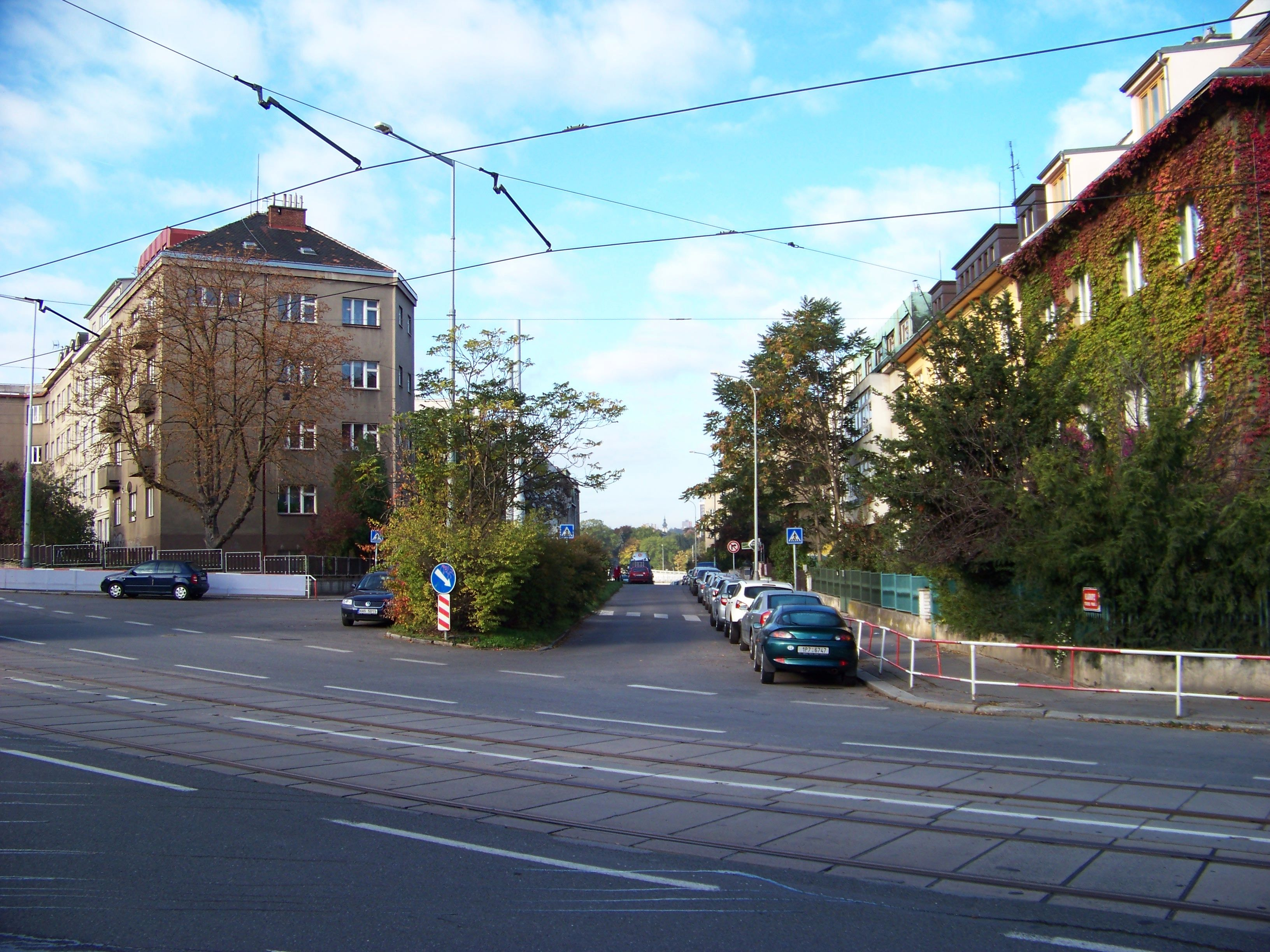 Prague-Střešovice, the Czech Republic. Hládkov street, from Myslbekova street. - OpenStreetMap(Info)